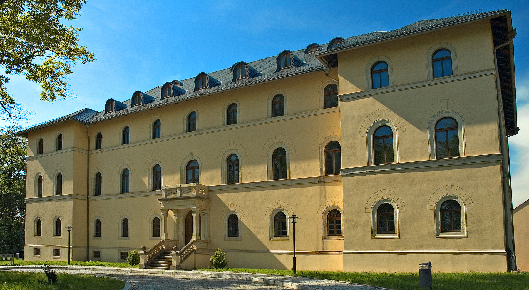 This image shows the castle Lichtenstein (Saxony, Germany).